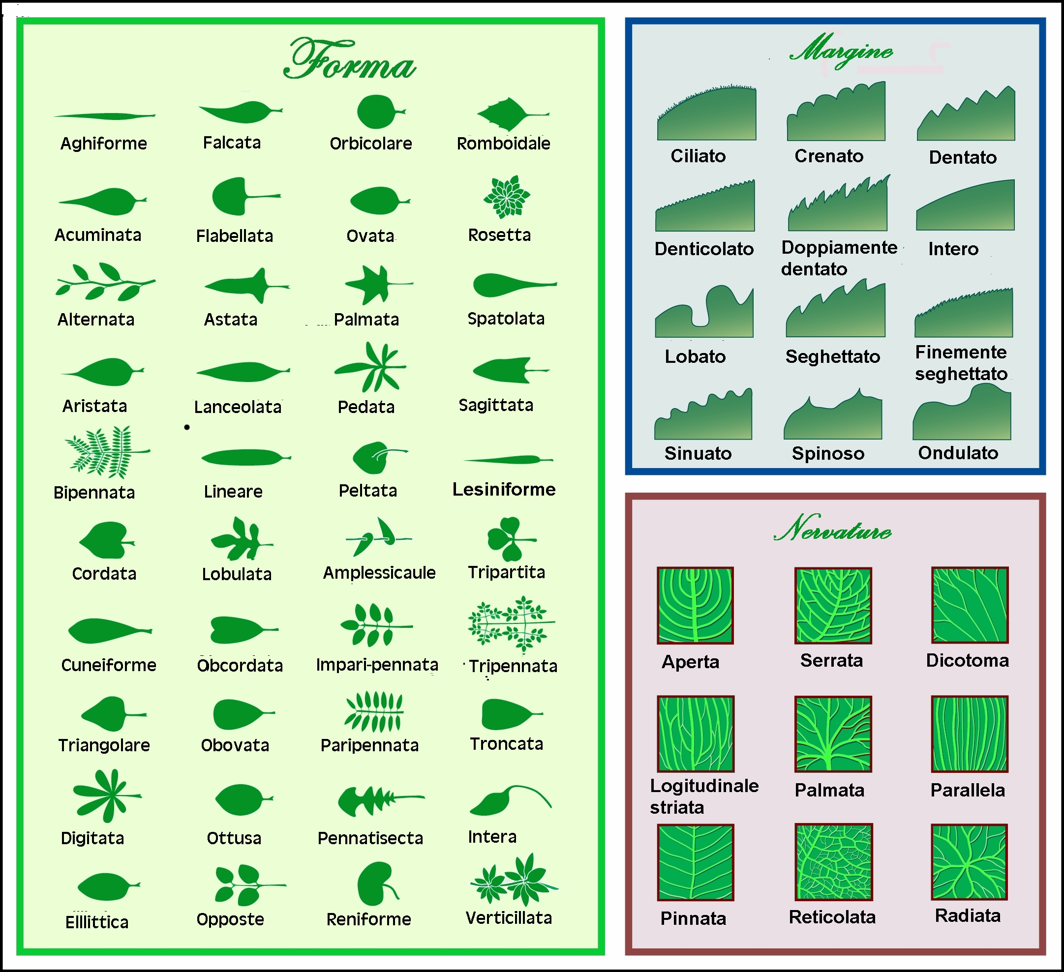 Spanish translation of chart of leaf morphology characteristics. by Debivort. Textless base belongs to Lbleye